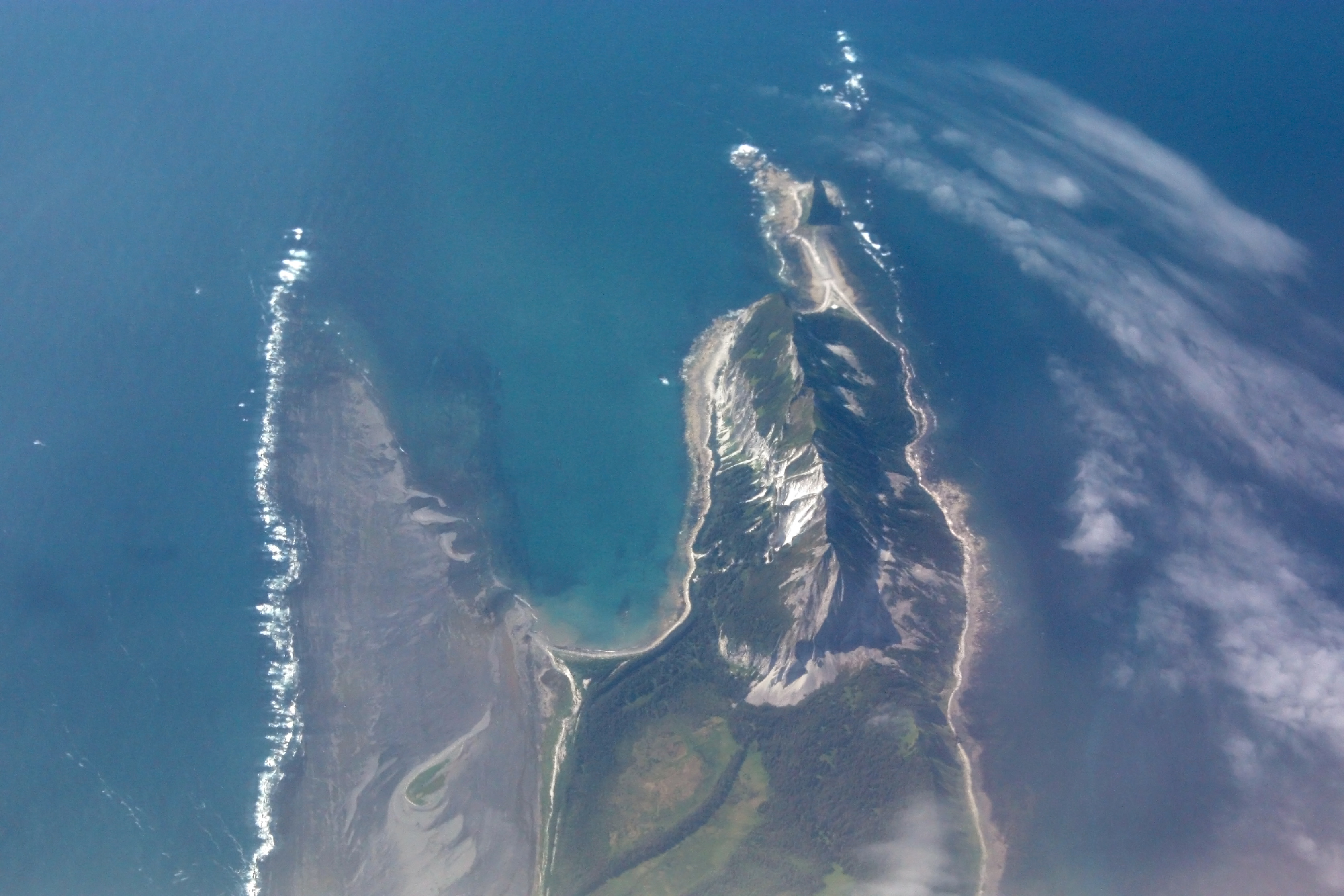 Kayak Island (south end); Cape St. Elias and Pinnacle Rock (upper right)